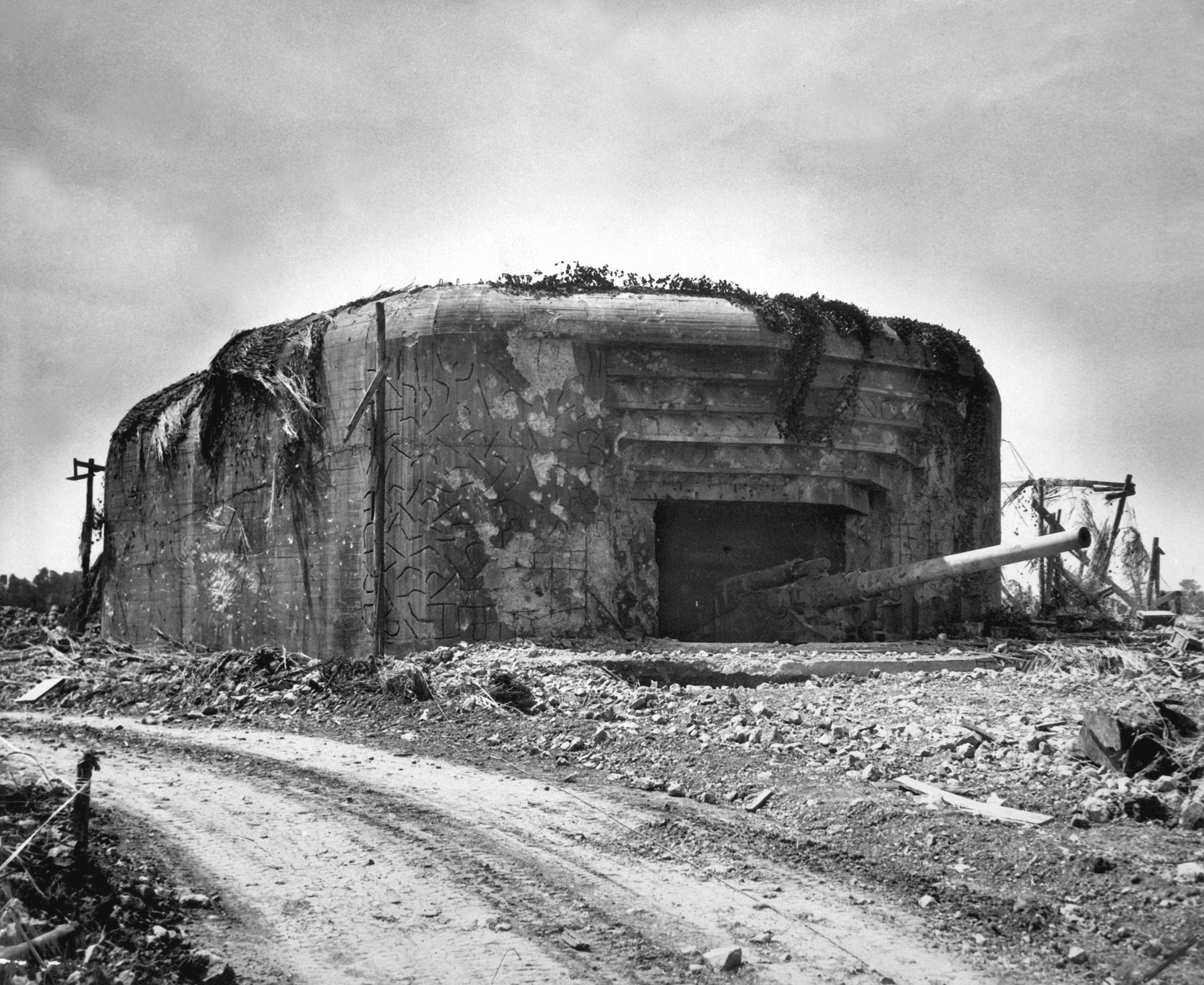 Monster Nazi gun battery silenced in France. This German gun emplacement has walls of concrete 13 feet thick and four guns each with a 10 1/4" bore. This particular position was bombed out of action by Allied flyers.